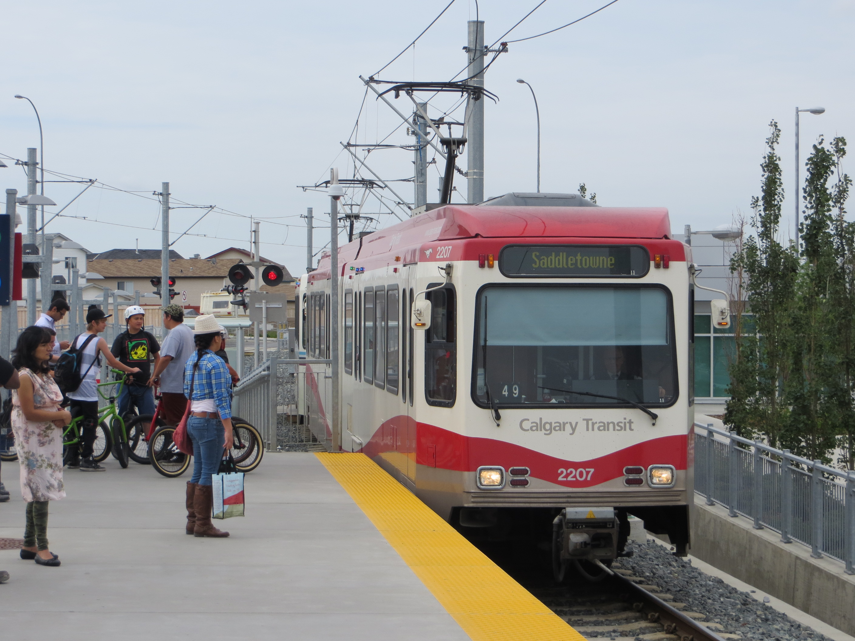 Calgary Transit LRV (light rail vehicle) 2207, a Siemens SD-160, leading a three-car train into the Saddletowne station.